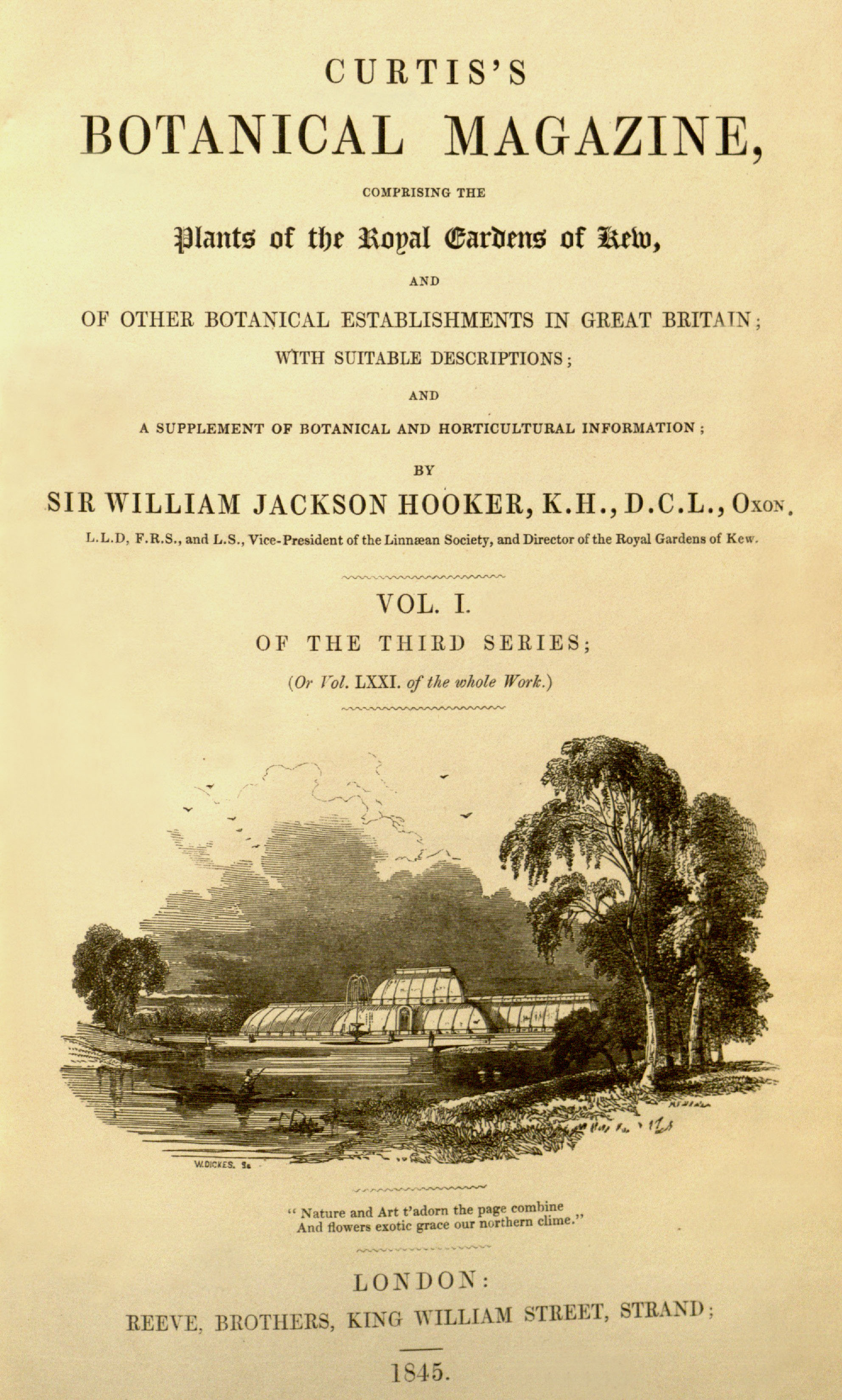 Title page of vol. 1 of the third series (vol. 71)